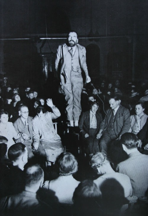 A photograph showing the fraudulent medium Colin Evans jumping.